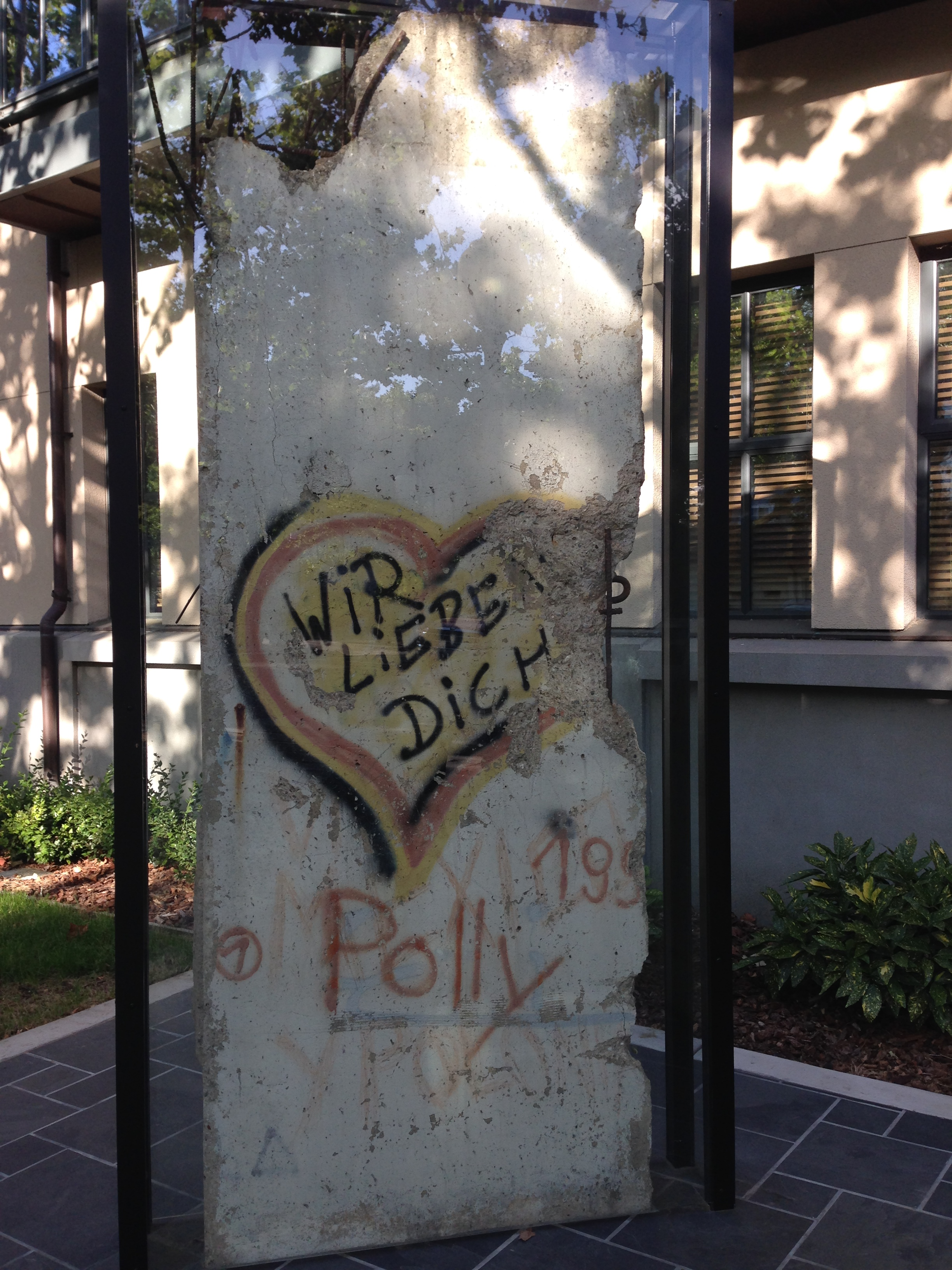 Two sections of the Berlin Wall stand outside of the Mountain View, California, Public Library. They were donated to the city by the Golzen family in August 2013 after private ownership by Frank and Kunigunde Golzen (2685 Marine Way, Mountain View) from 1990-2013.